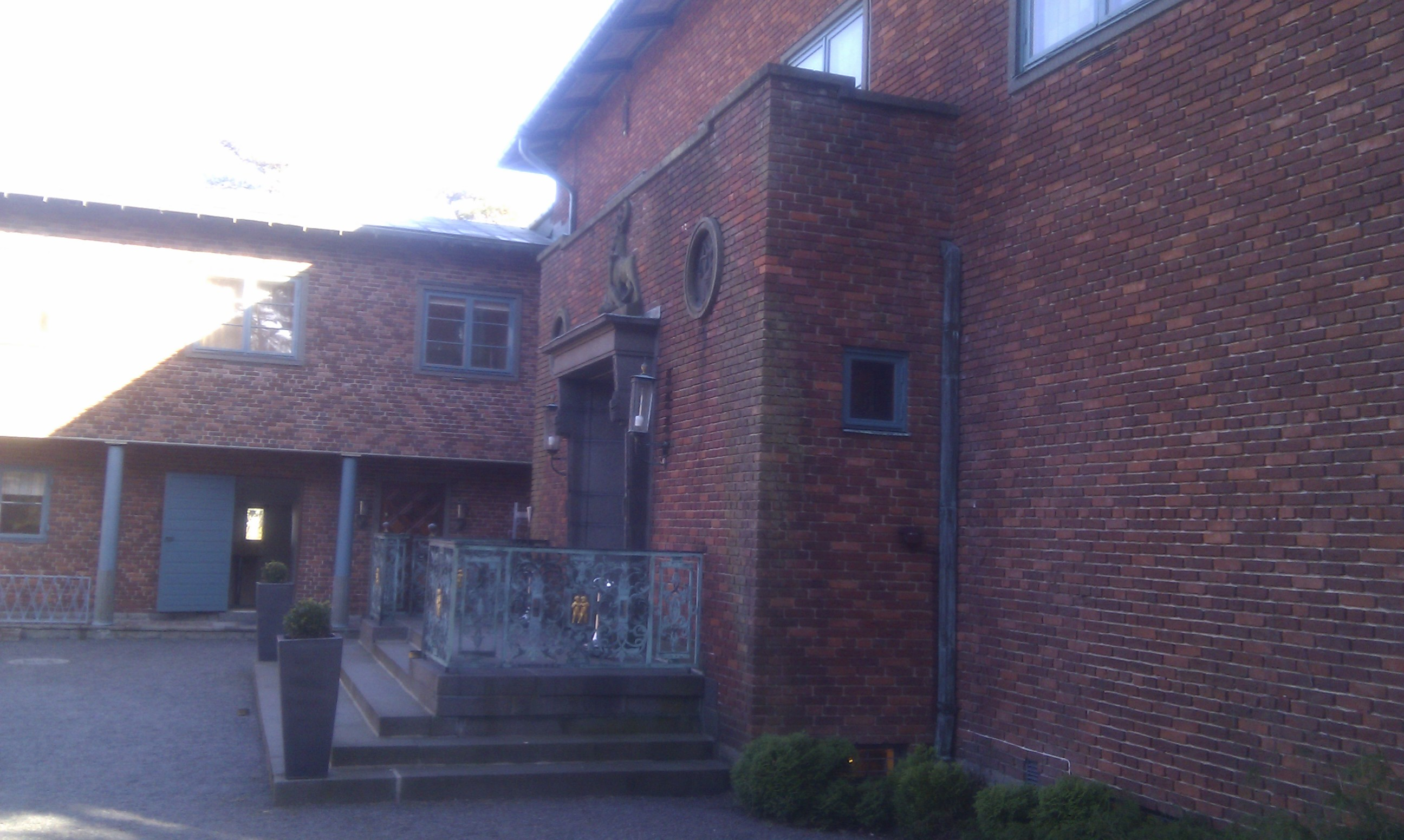 Entrance of Villa Midtås in Sandefjord, Norway, residence og shipowner Anders Jahre